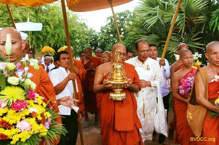 Pisak Bochea at Vipassakna Dhaurak of Kingdom of Cambodia